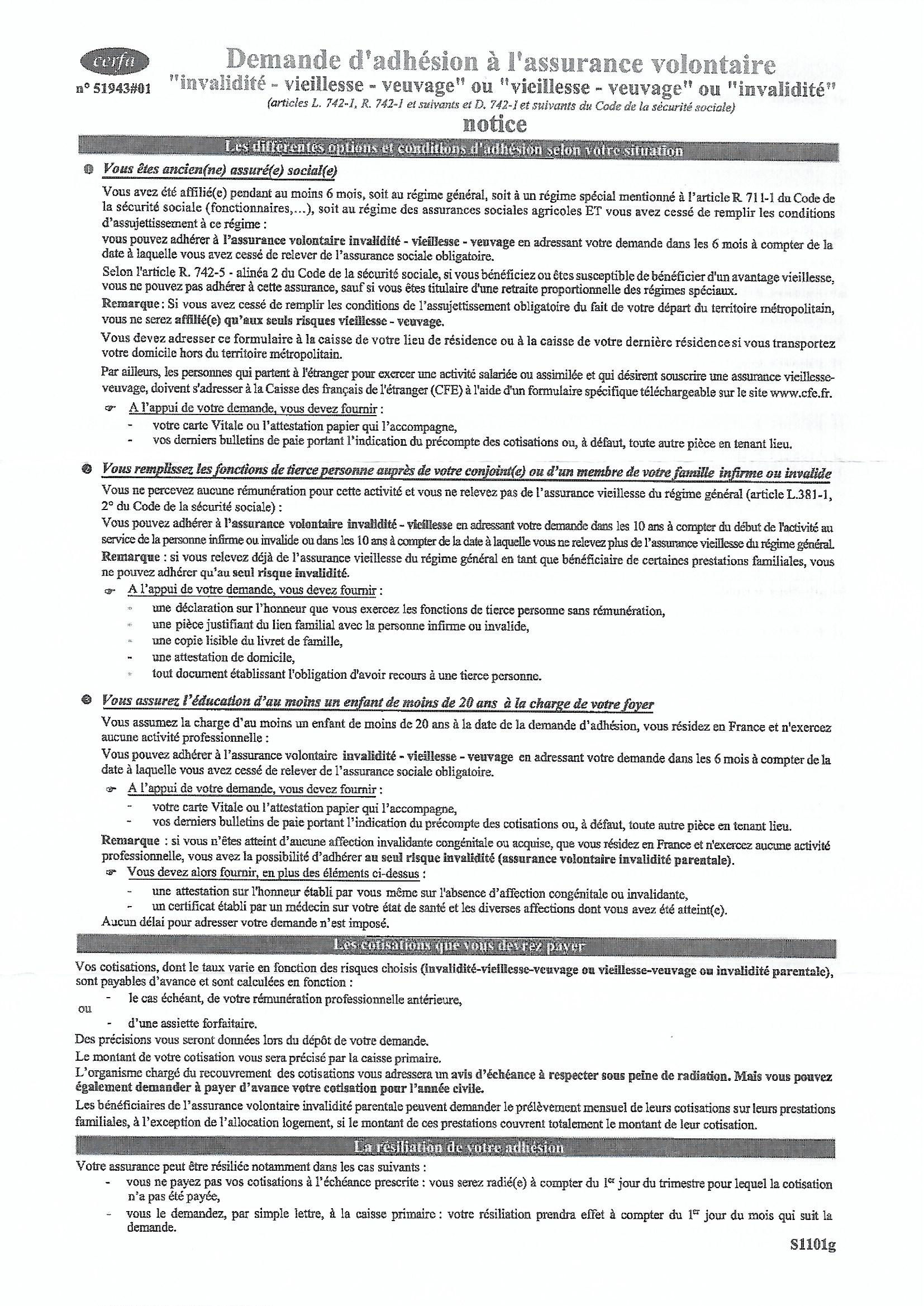 Formulaire Assurance volontaire vieillesse verso